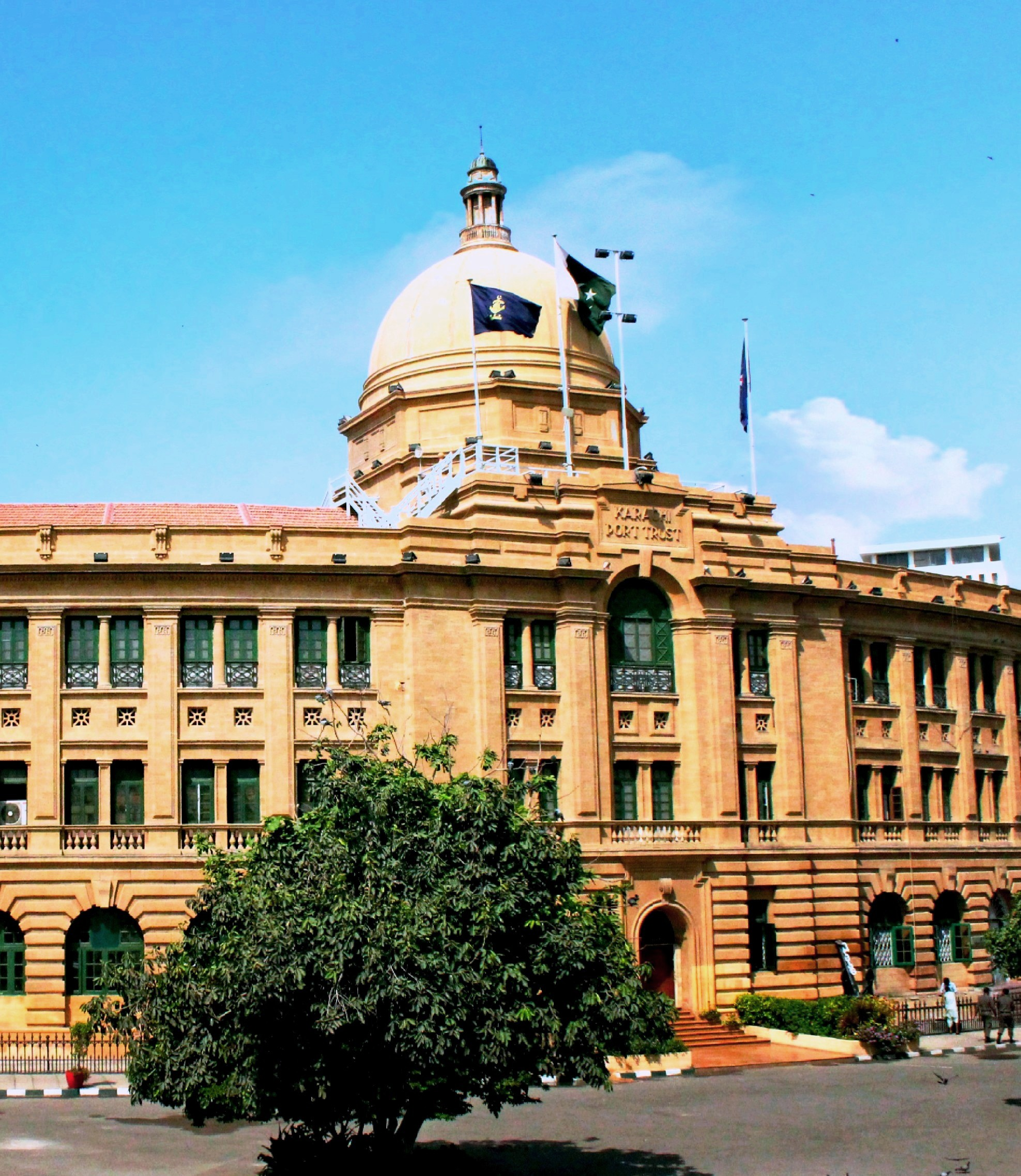 A view of the entrance to KPT Building (Karachi Port Trust)